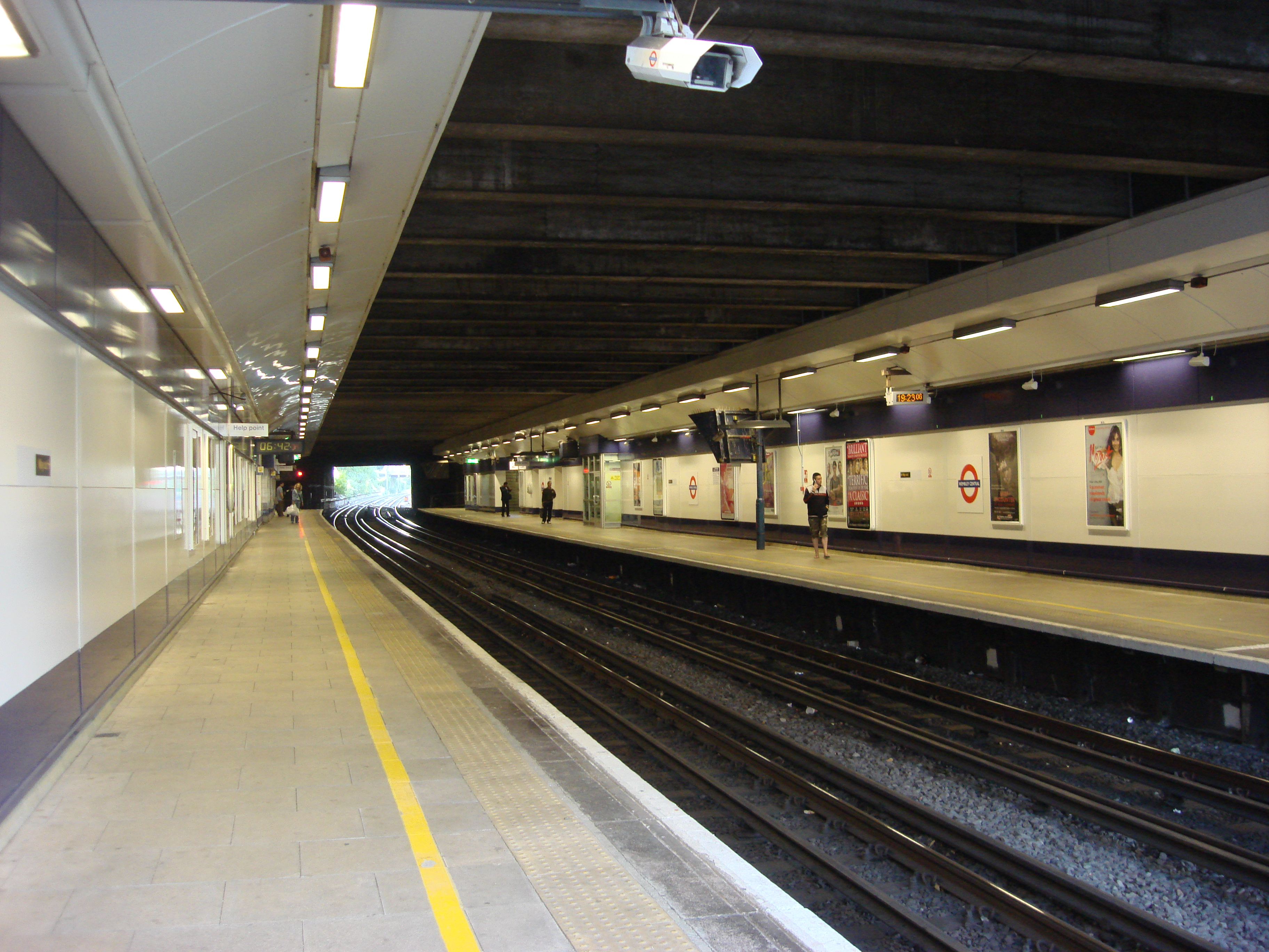 Wembley Central station, northbound platform